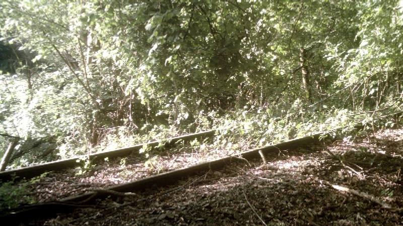 Old railway track in Donk, Neuwerk, Mönchengladbach, Germany.